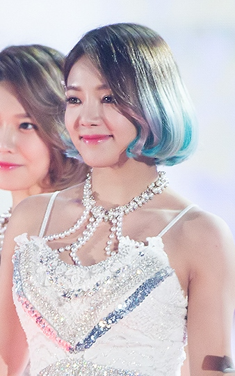 Hyoyeon at KBS Gayo Daechukje December 30, 2015.